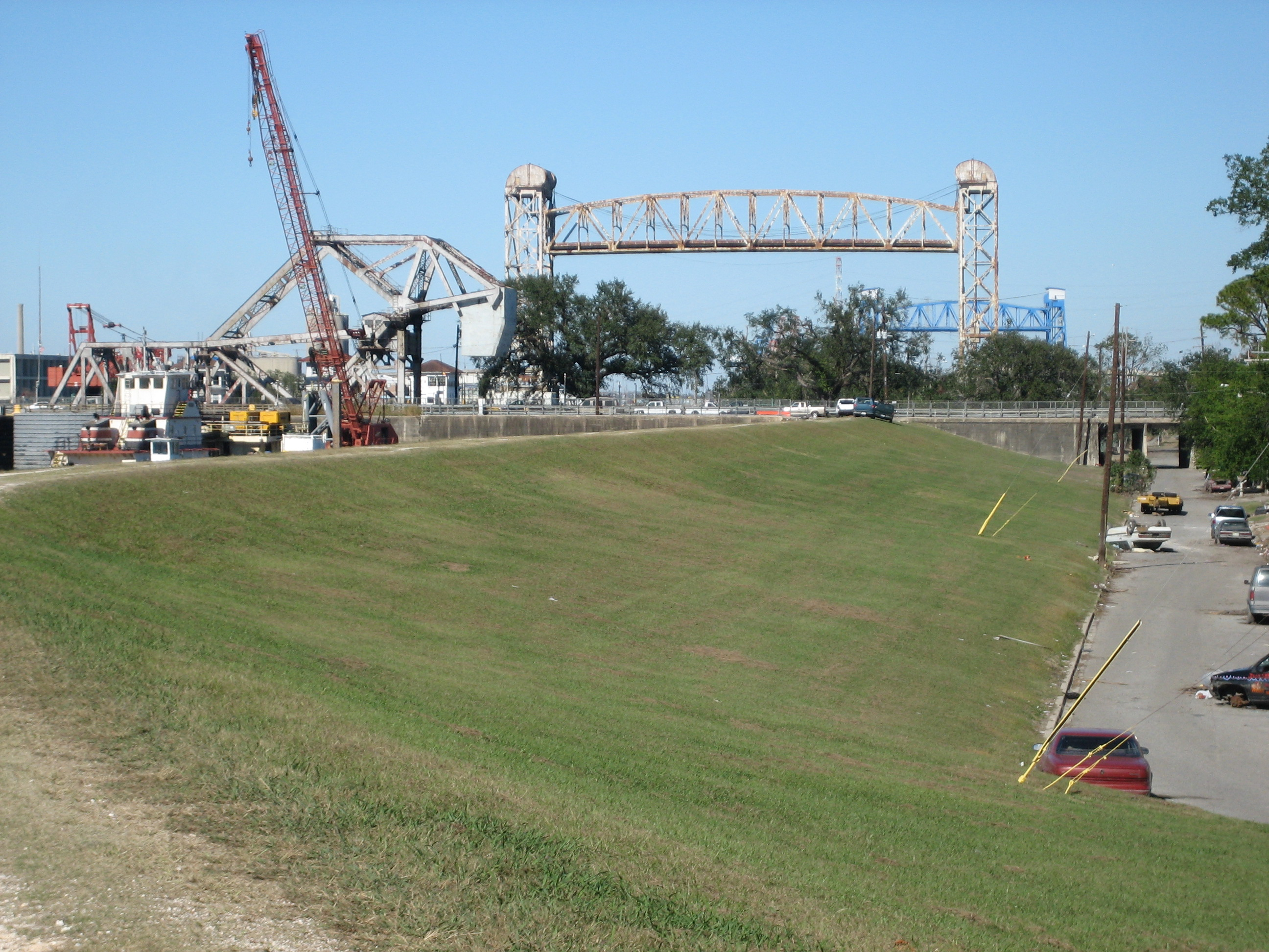 New Orleans Industrial Canal just back from the Mississippi River entrance, with view of first lock, St. Claude, and Claiborne Avenue bridges. Blue towers of Florida Avenue Bridge visible in distance. View from the levee in the Lower 9th Ward.